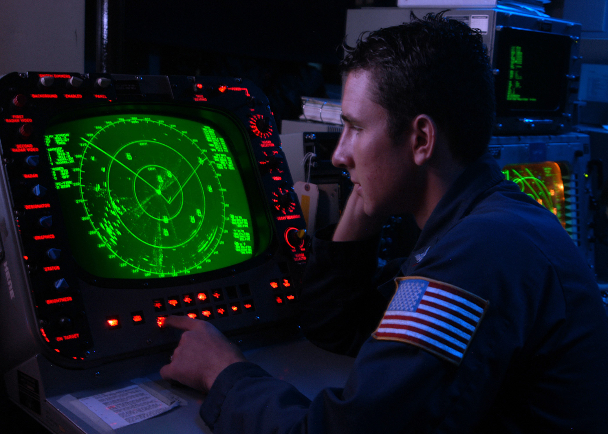 AN/SPS-67 screen